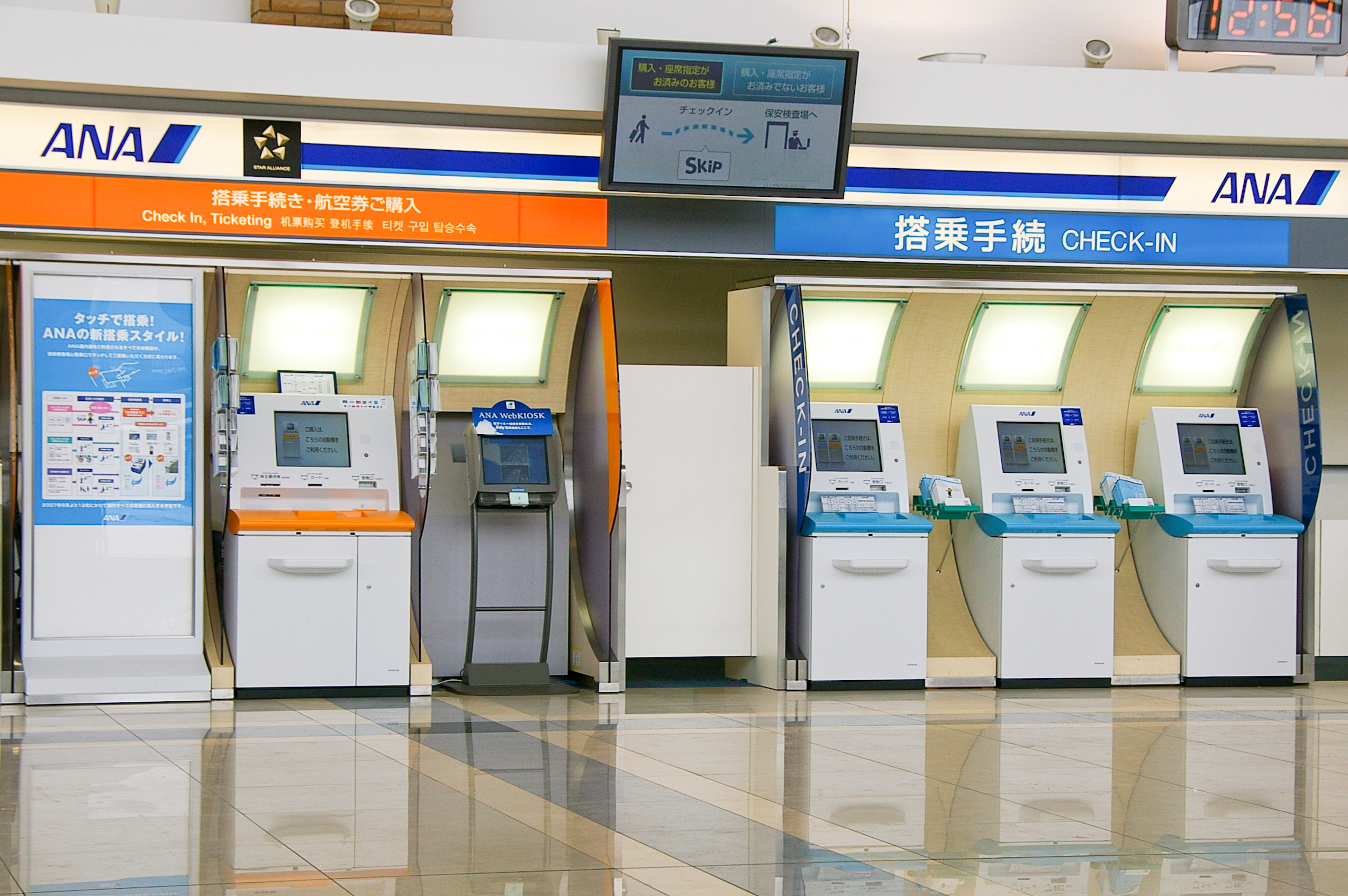 The automated ticketing and check-in machines at All Nippon Airways' check-in counter in Hakodate Airport Domestic Terminal in Hakodate, Hokkaido, Japan. On the left (the orange zone) are an automatic check-in/ticketing machine and an ANA Web Kiosk (Edy terminal), whilst on the right (the light blue zone) are 3 automatic check-in machines.